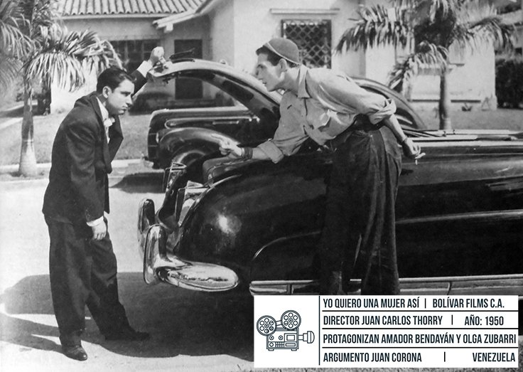 Archive copy of a frame from the filming of Yo quiero una mujer así